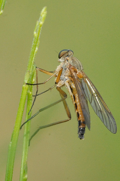 Picture taken in Commanster, Belgian High Ardennes . Species: male Rhagio tringarius